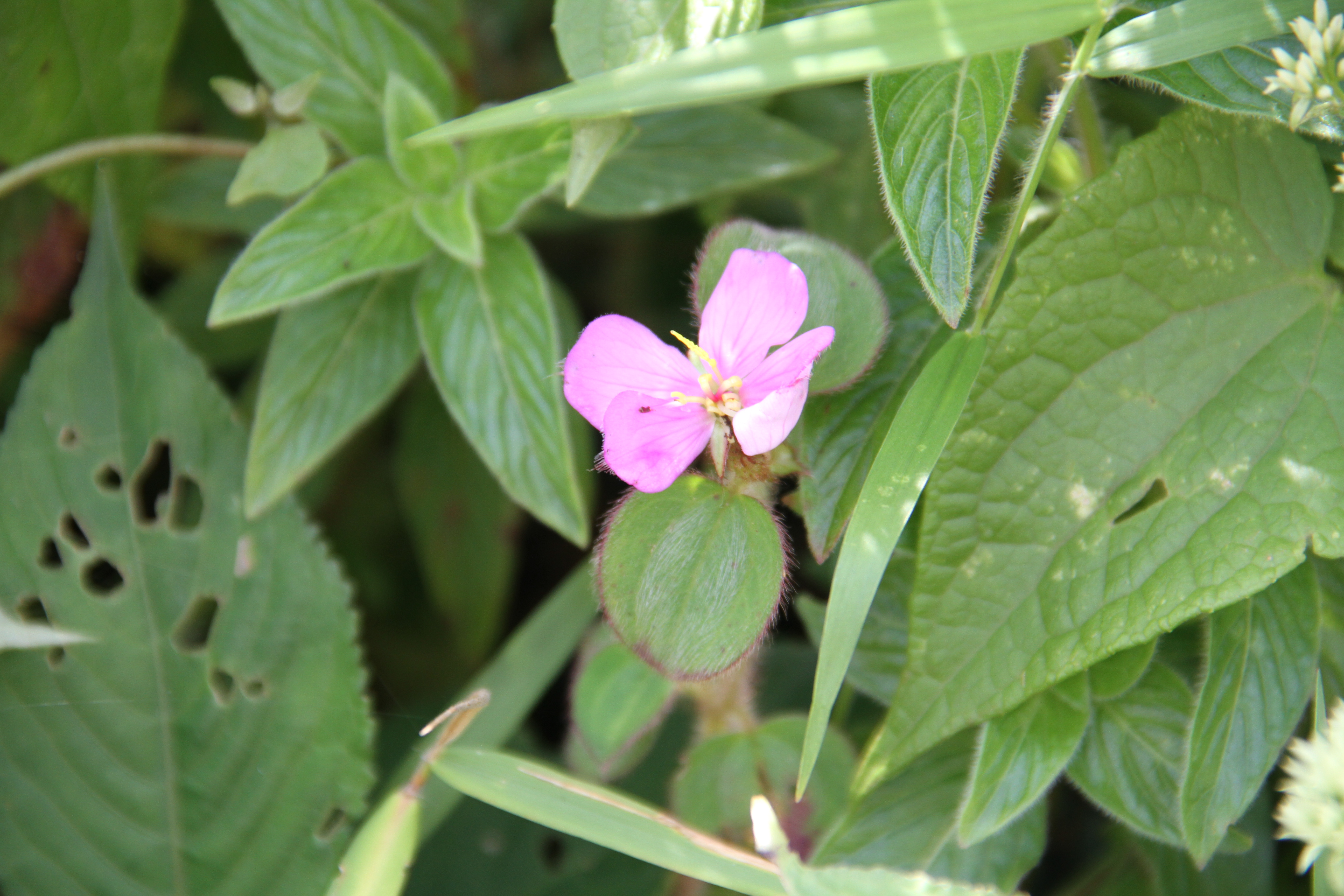 Dissotis (s.lat.) sp., Highlands between Luba and Moka, ~800m a.s.l. (+/-200m), Bioko, December 2013